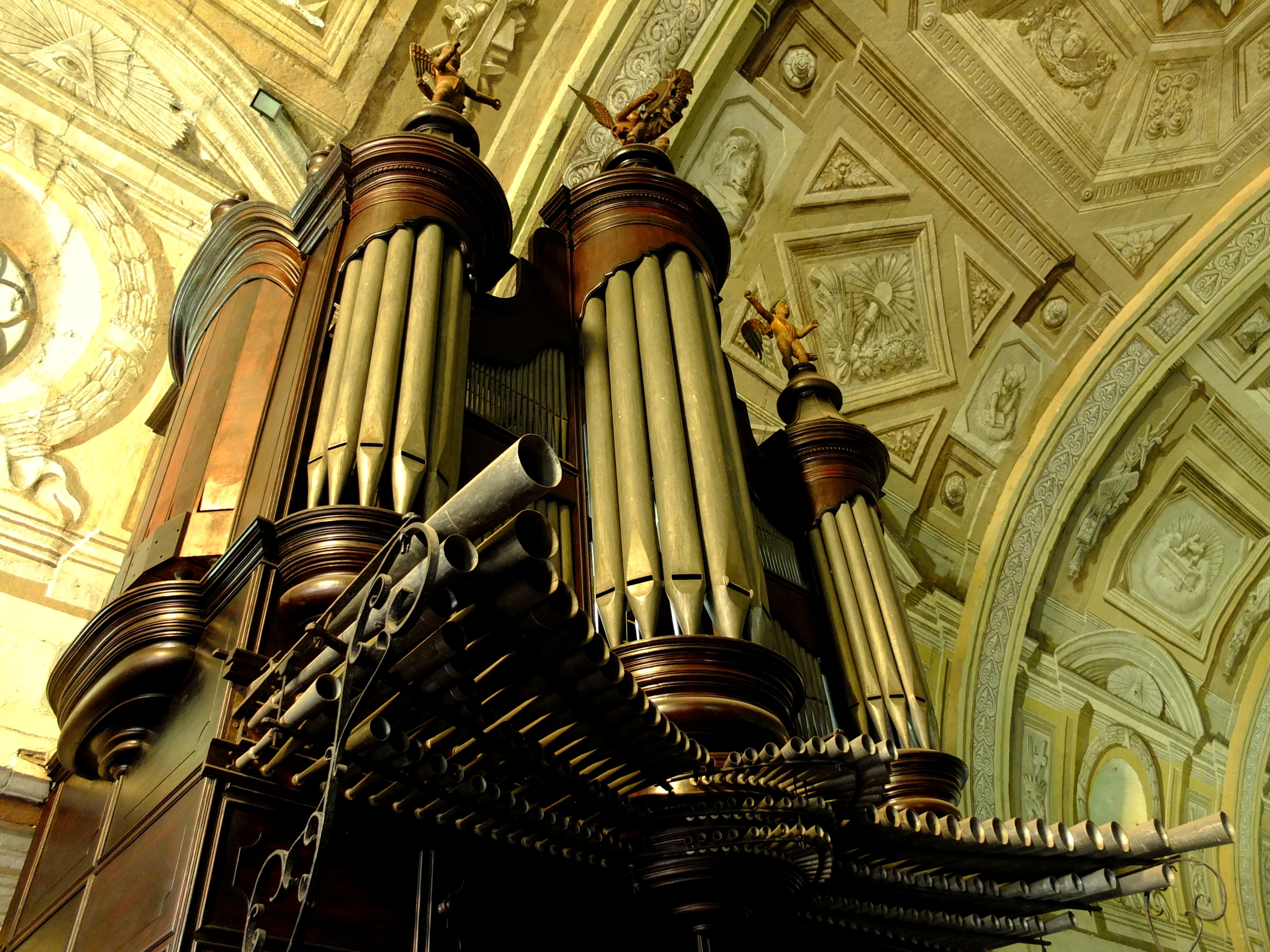 The pipe organ of San Agustin Church in Intramuros, Manila